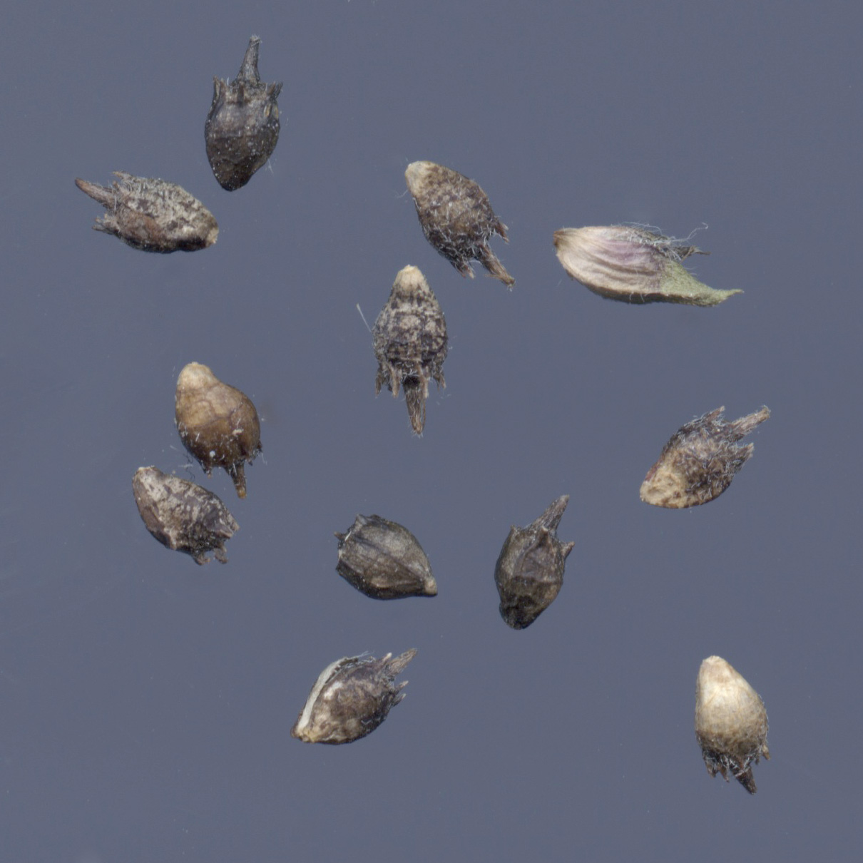 Annual Ragweed (Ambrosia artemisiifolia) Seeds